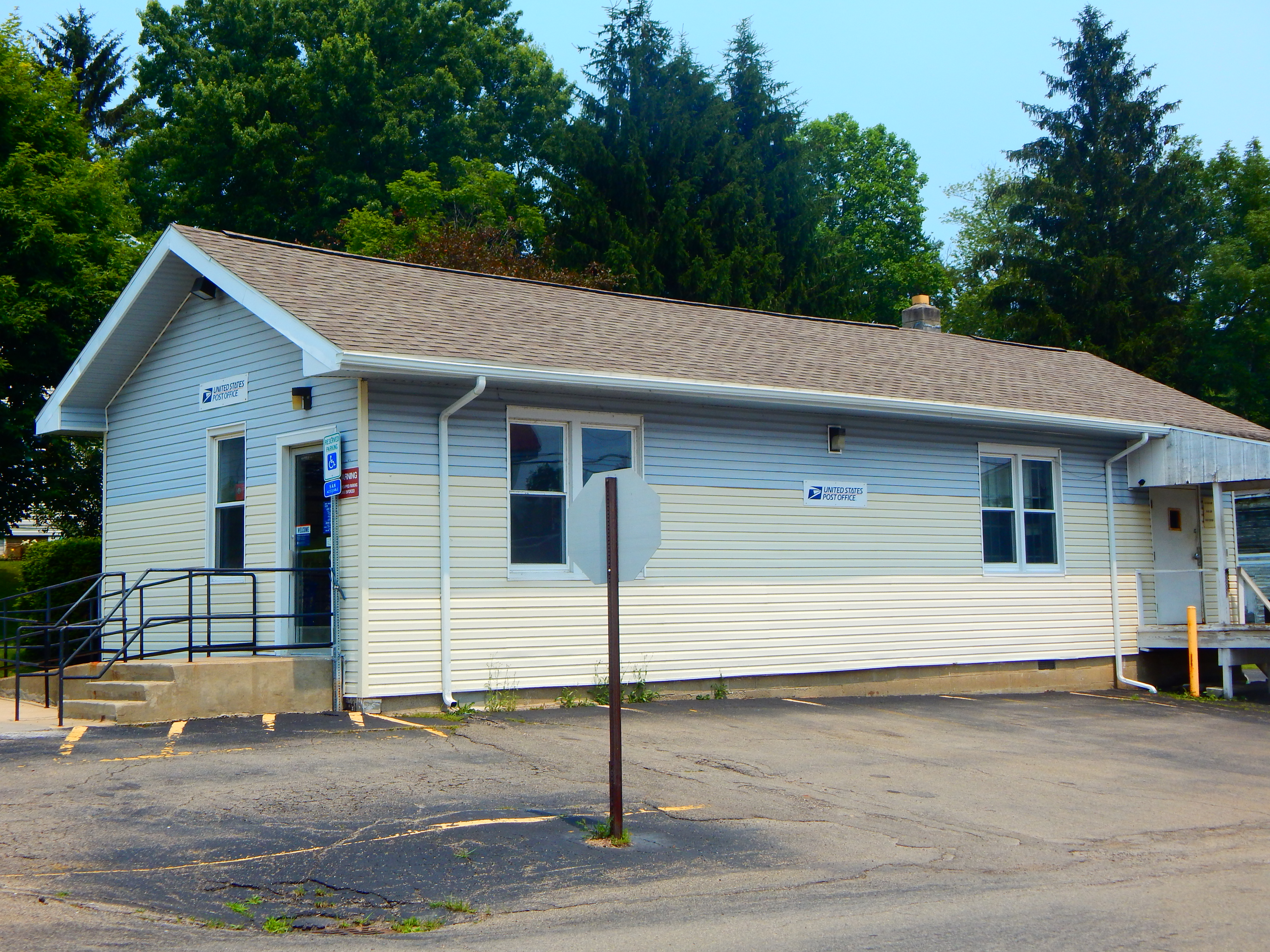 The former Erie Railroad station in Kennedy, New York, now a post office.